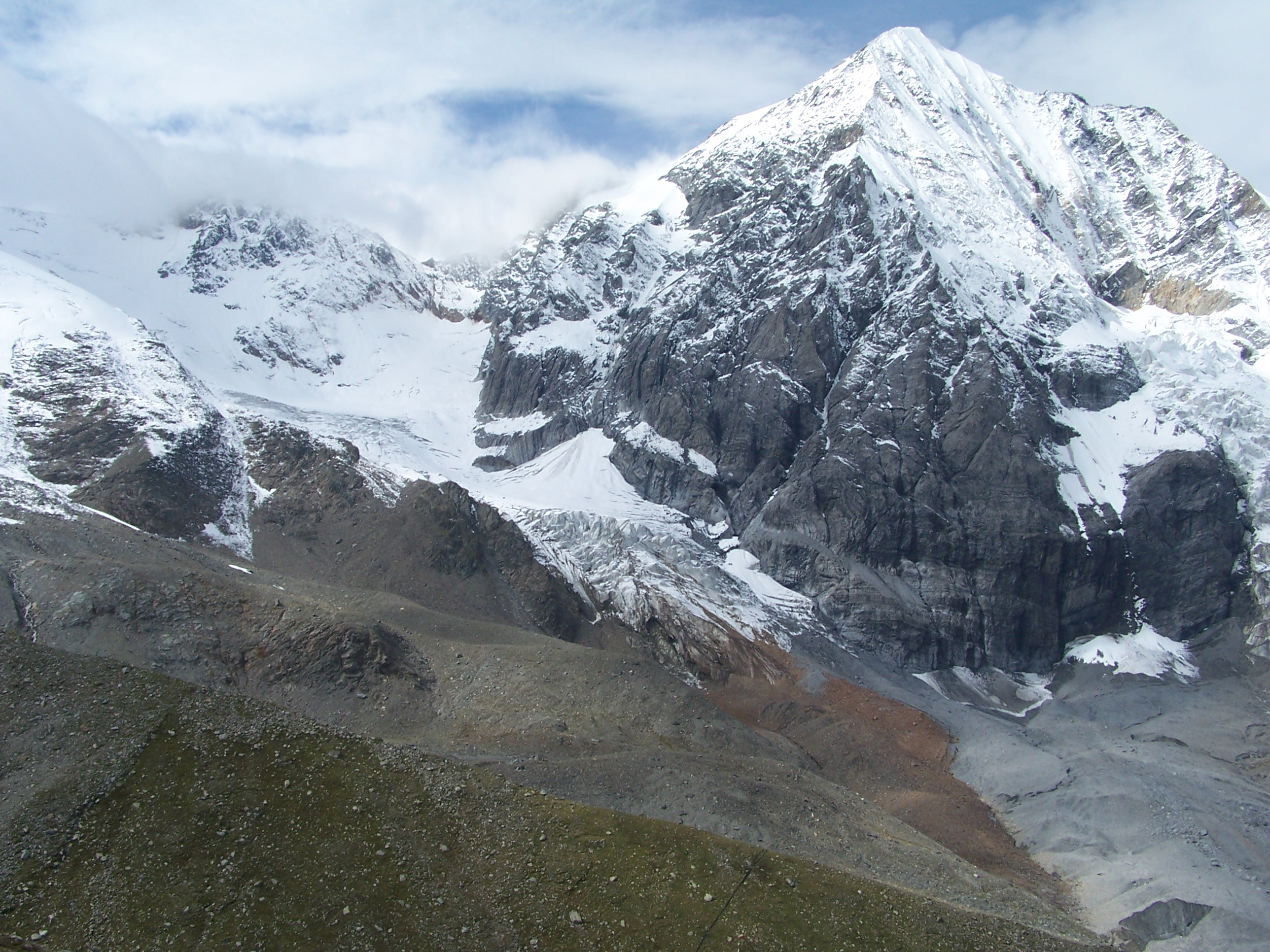 glacier at the Ortler